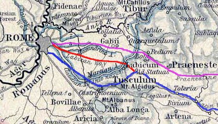 Ancient roman Labicana way (red color). In the picture are also higlighted the Latina way(blue) and the Prenestina way (violet)